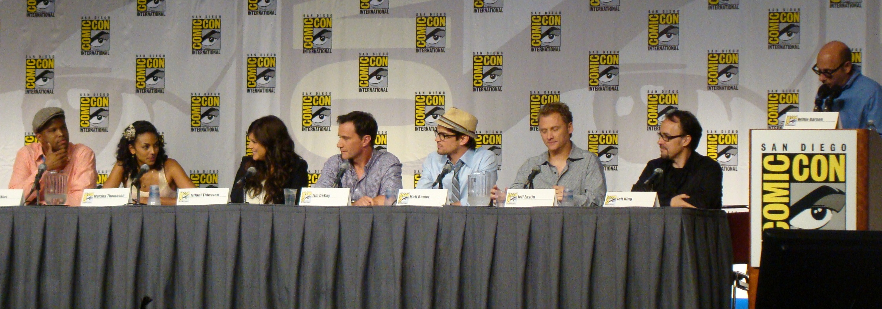 The cast of White Collar at San Diego Comic Con 2010: Sharif Atkins, Marsha Thomason, Tiffani Thiessen, Tim DeKay, Matt Bomer, Jeff Eastin, Jeff King & Willie Garson